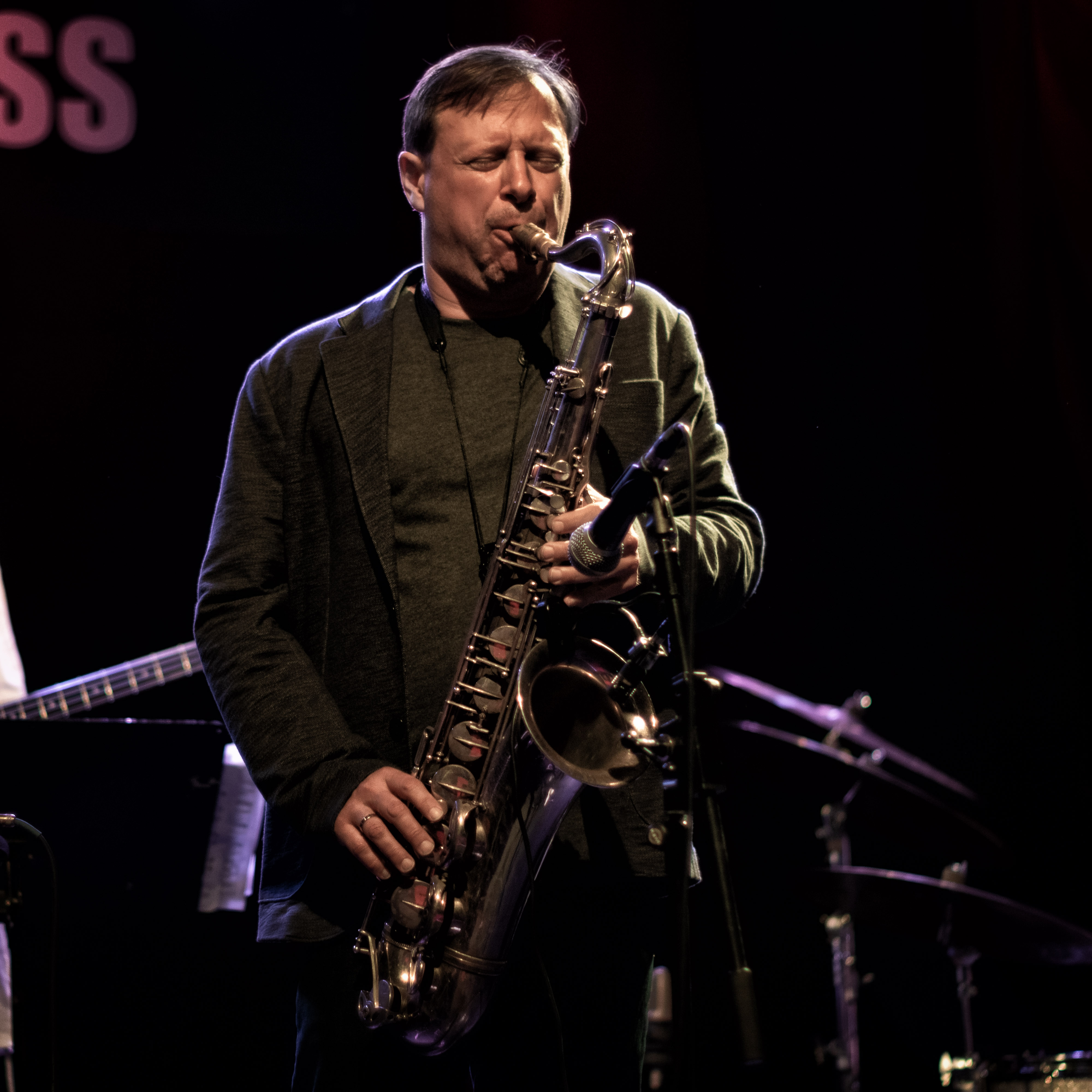 Chris Potter Circuits Quartet live at Porgy & Bess jazz club in Vienna, April 1st 2019. Chris Potter: tenor saxophone Craig Taborn: fender rhodes, piano Tim Lefebvre: bass Justin Brown: drums